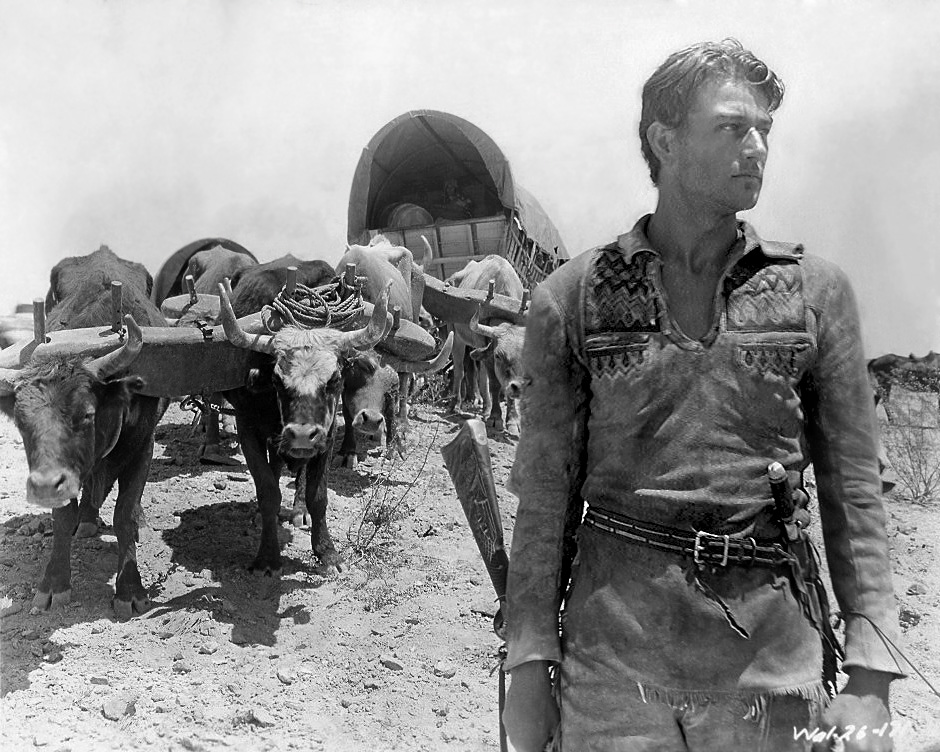 Publicity photo of American actor John Wayne in The Big Trail.